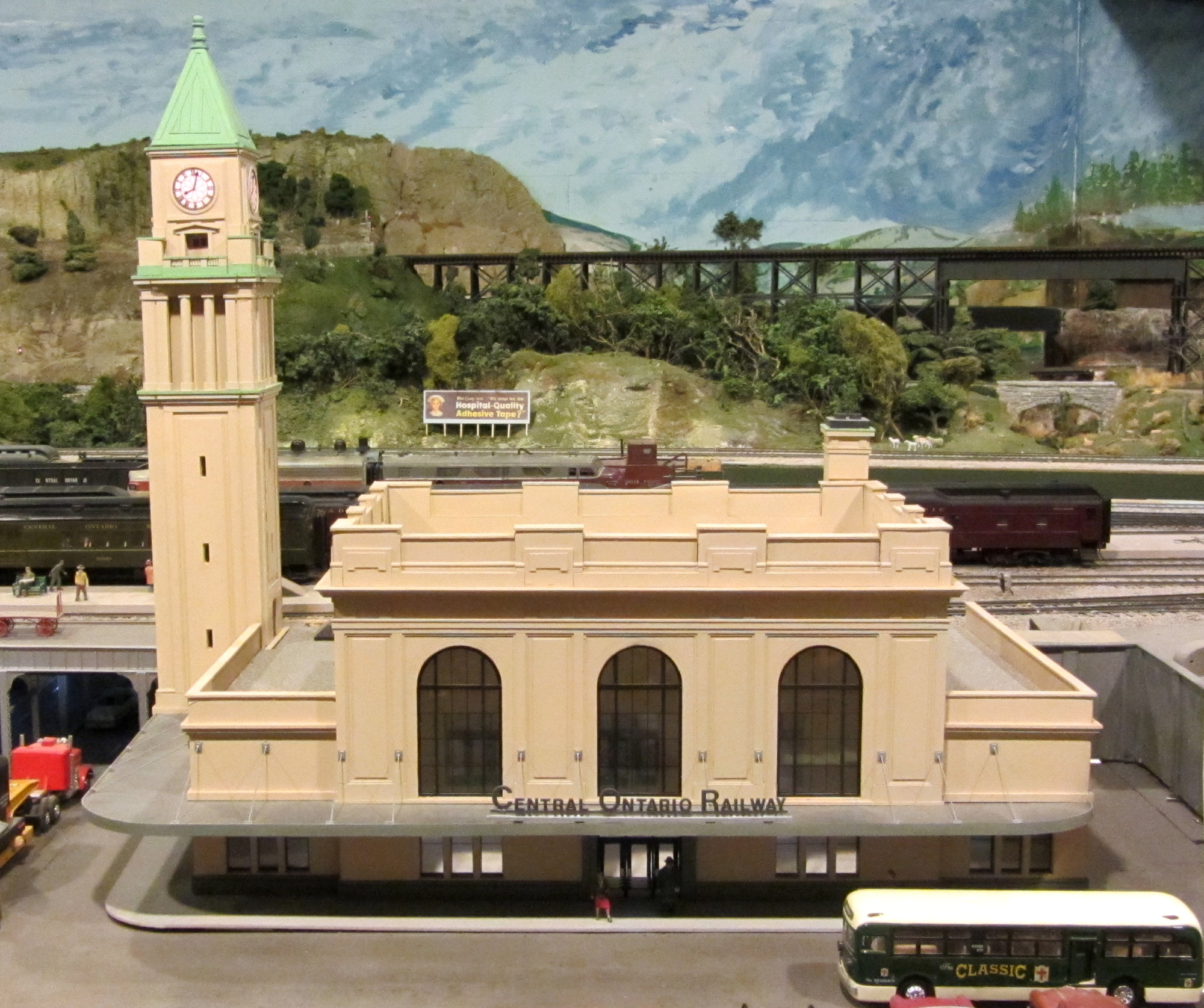 This train station at the Model Railway Club of Toronto is based on North Toronto Station, now better known as the LCBO Summerhill store.